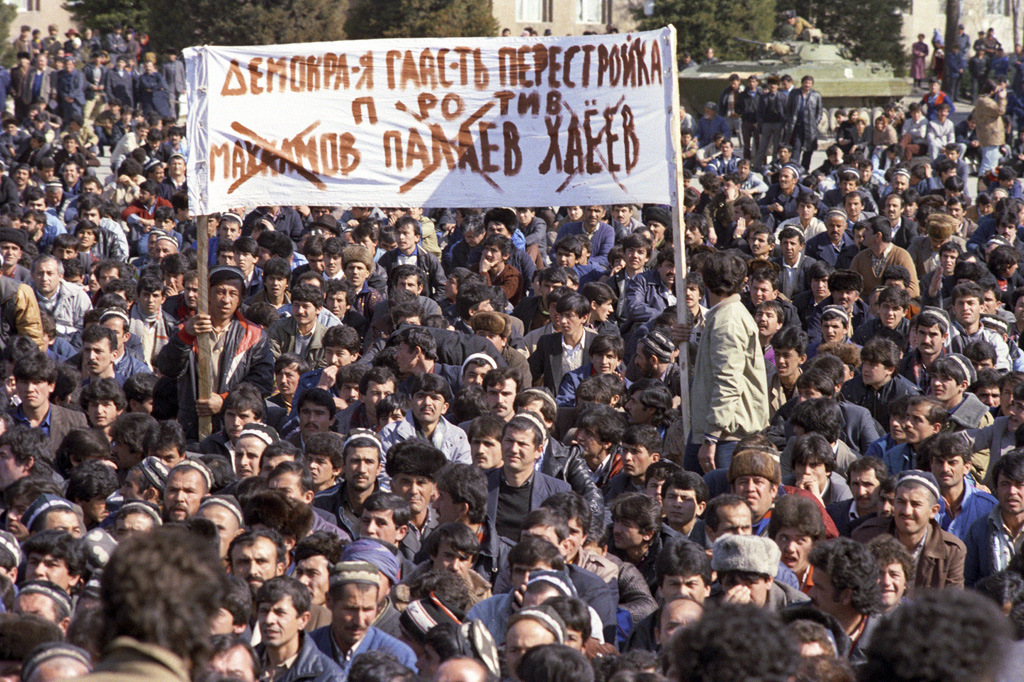 “Massive riots in Dushanbe in February 1990”. Massive riots in Dushanbe on February 10-17, 1990. Participants in the rally demanding the resignation of the first three persons of the republic.